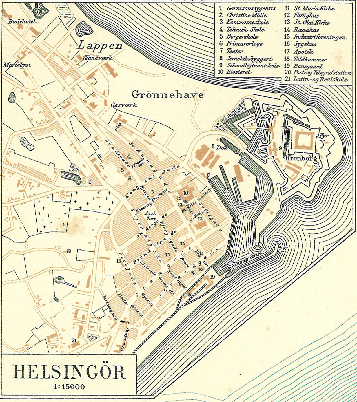 Map of Copenhagen and Frederiksborg Counties in Denmark